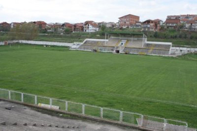 Soccer stadium, Kočani, North Macedonia